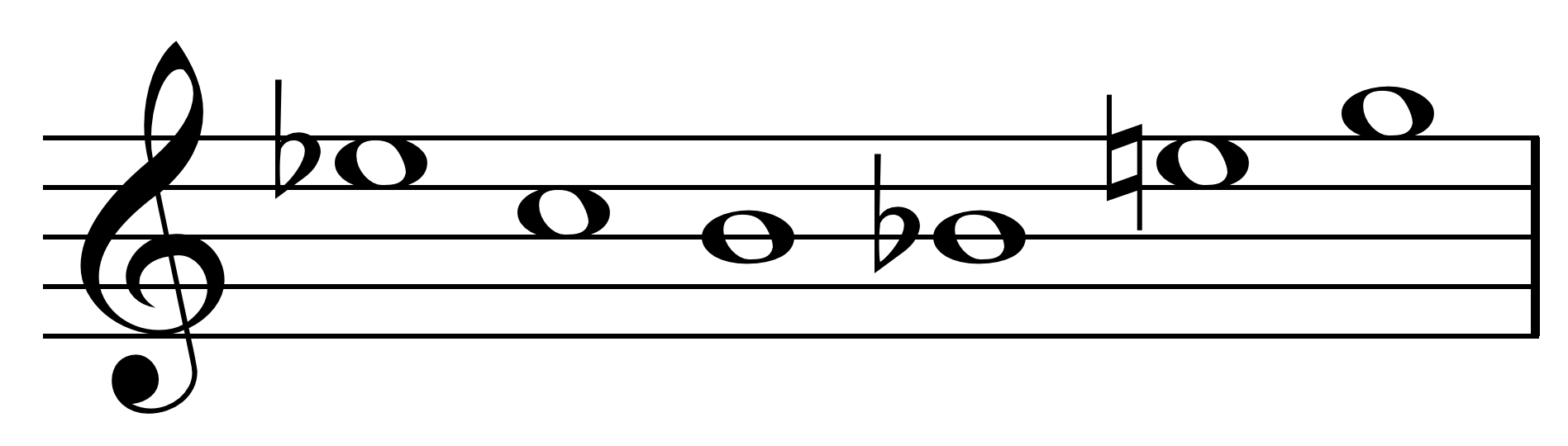 Schoenberg hexachord (S-C-H-B-E-G). Created by Hyacinth (talk) 00:33, 13 October 2010 using Sibelius 5.